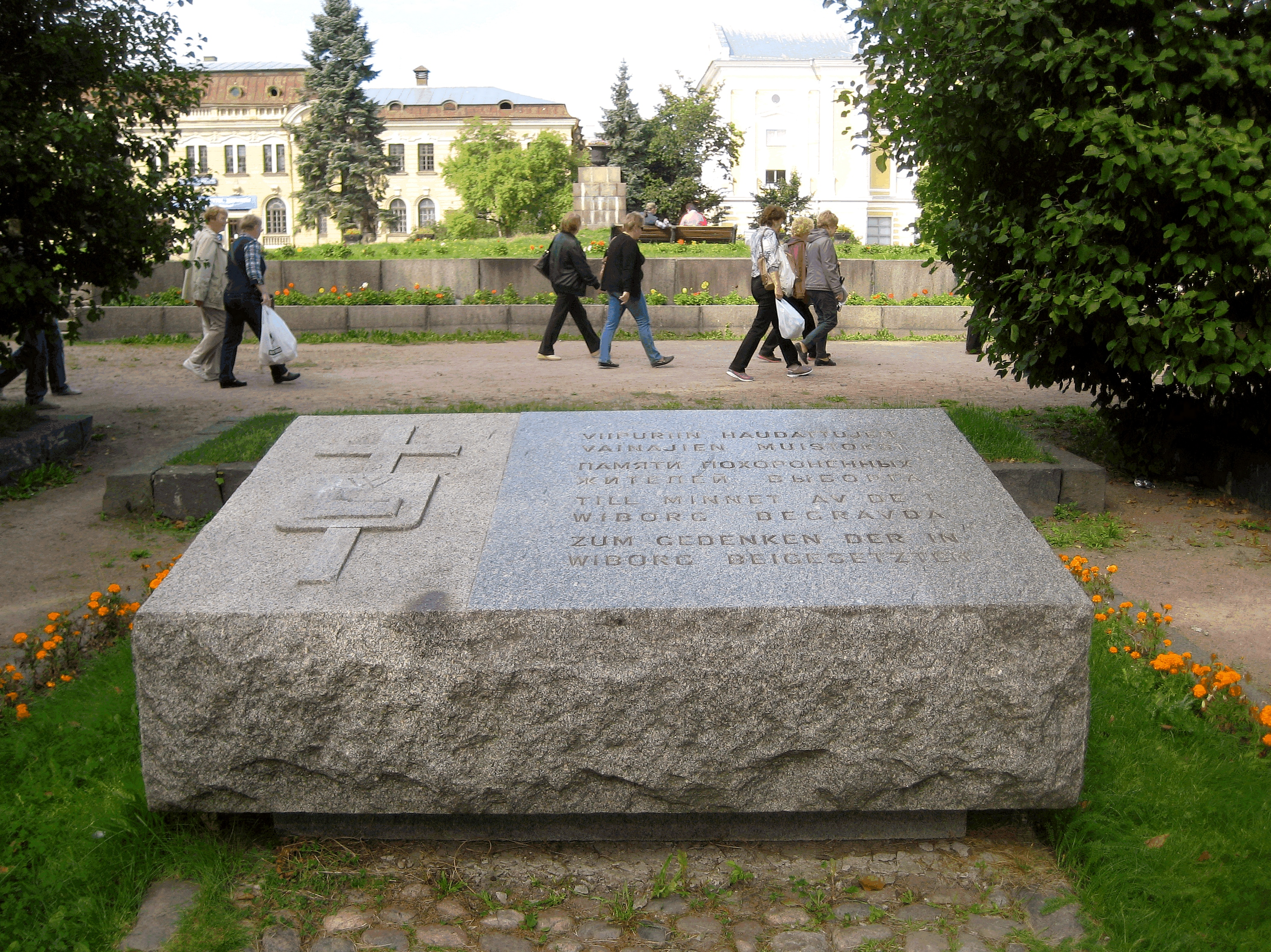 Vyborg. Stove in place of the Finnish whiteguards burials